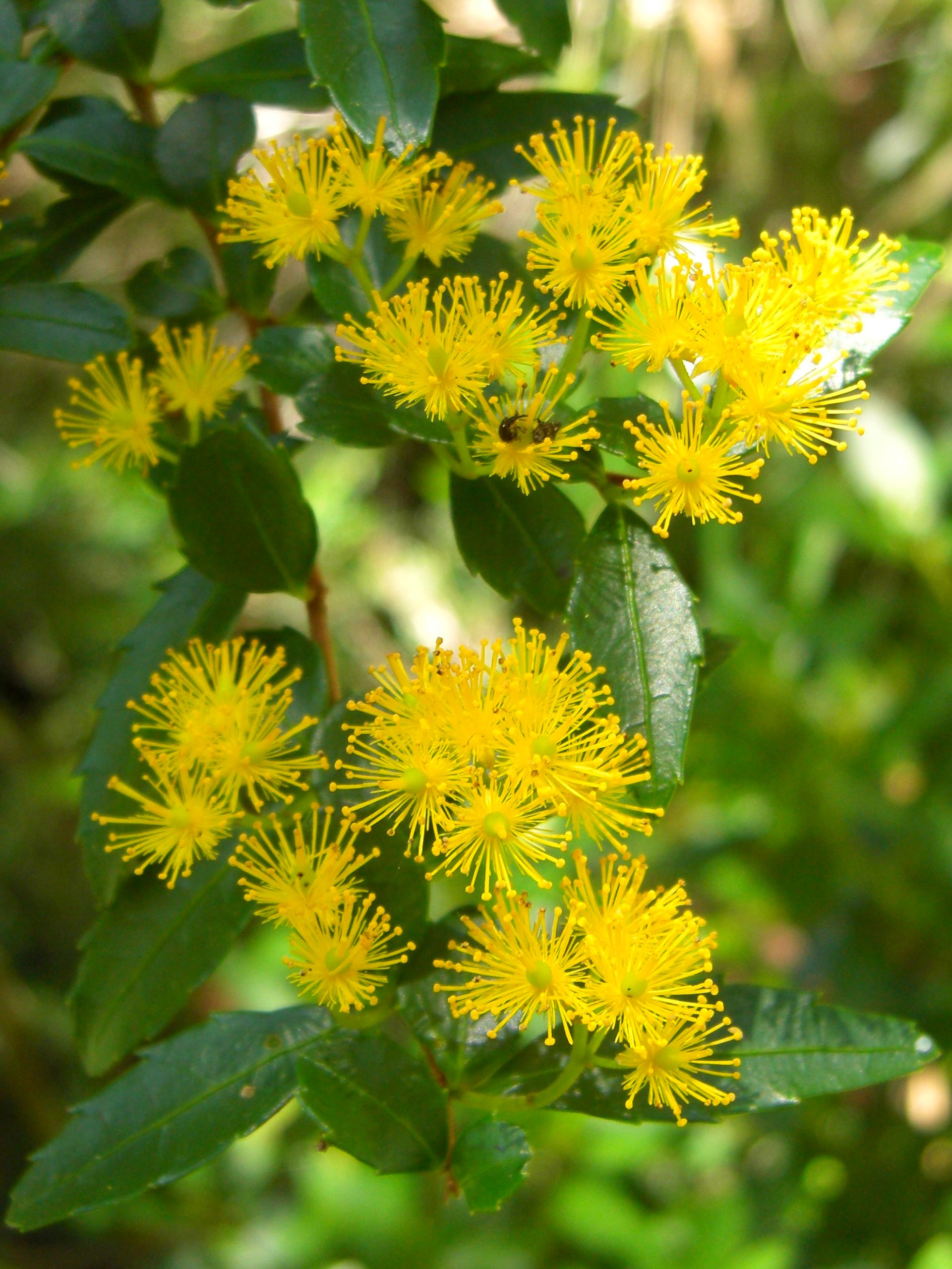 Azara serrata Ruiz & Pav.; Parque Nacional Huerquehue, Chile; Unusual flowering shrub in the Flacourtiaceae family.